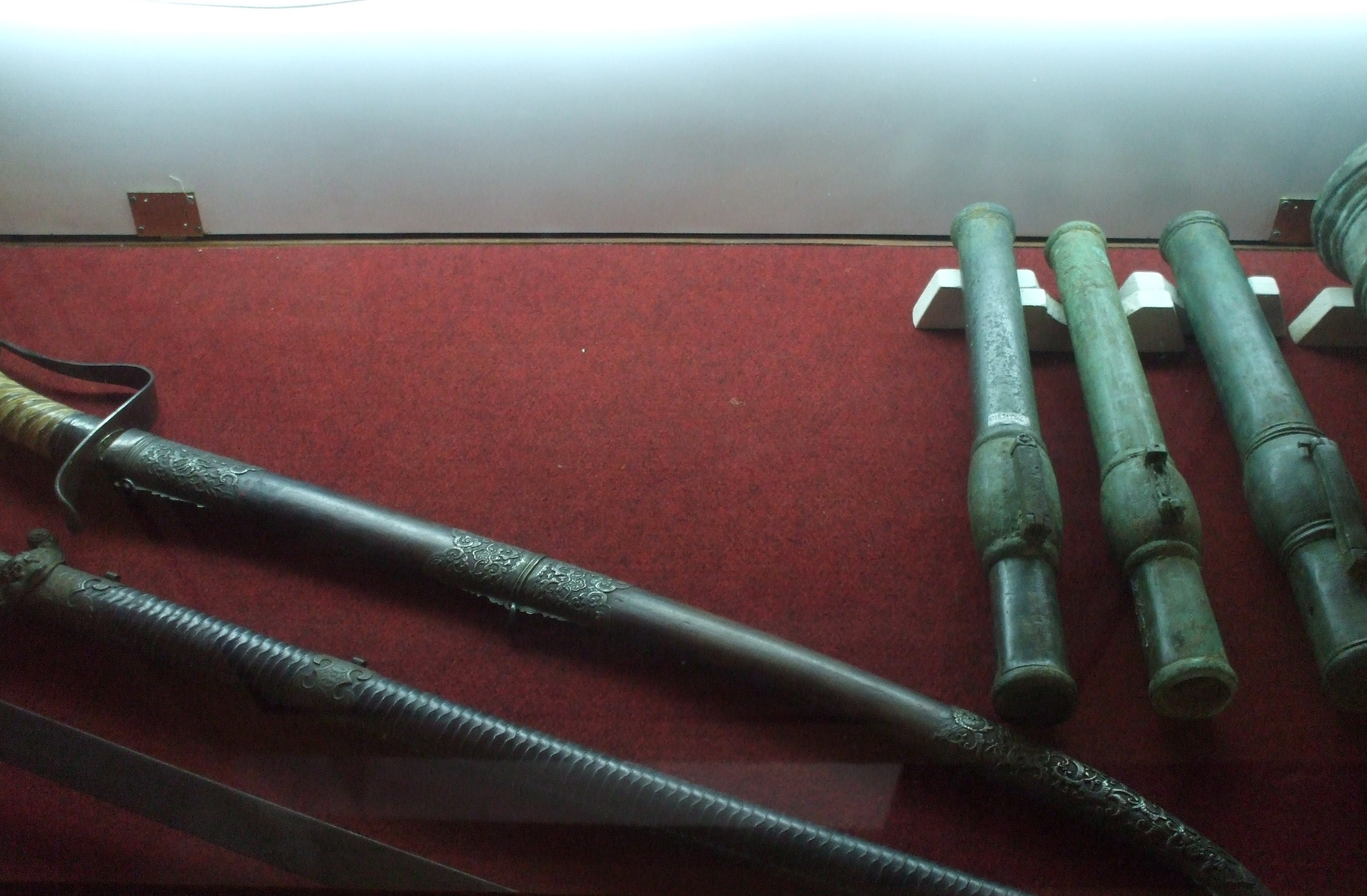 A sword and small firearms of Tay Son force, Museum of History, Ho Chi Minh City